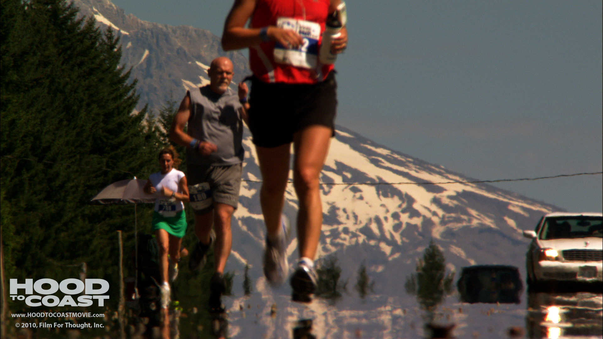 hood to coast run